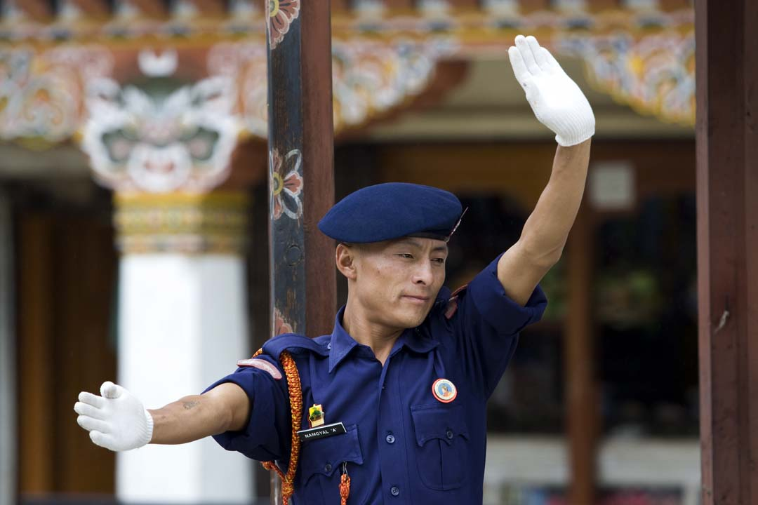 There are no traffic lights or signals in Bhutan. Here is the only controlled intersection in the entire country - located in the capital city of Thimphu.